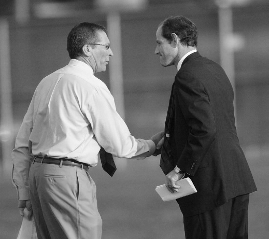 Fairport High School Principal Dave Paddock and Elliot Spitzer